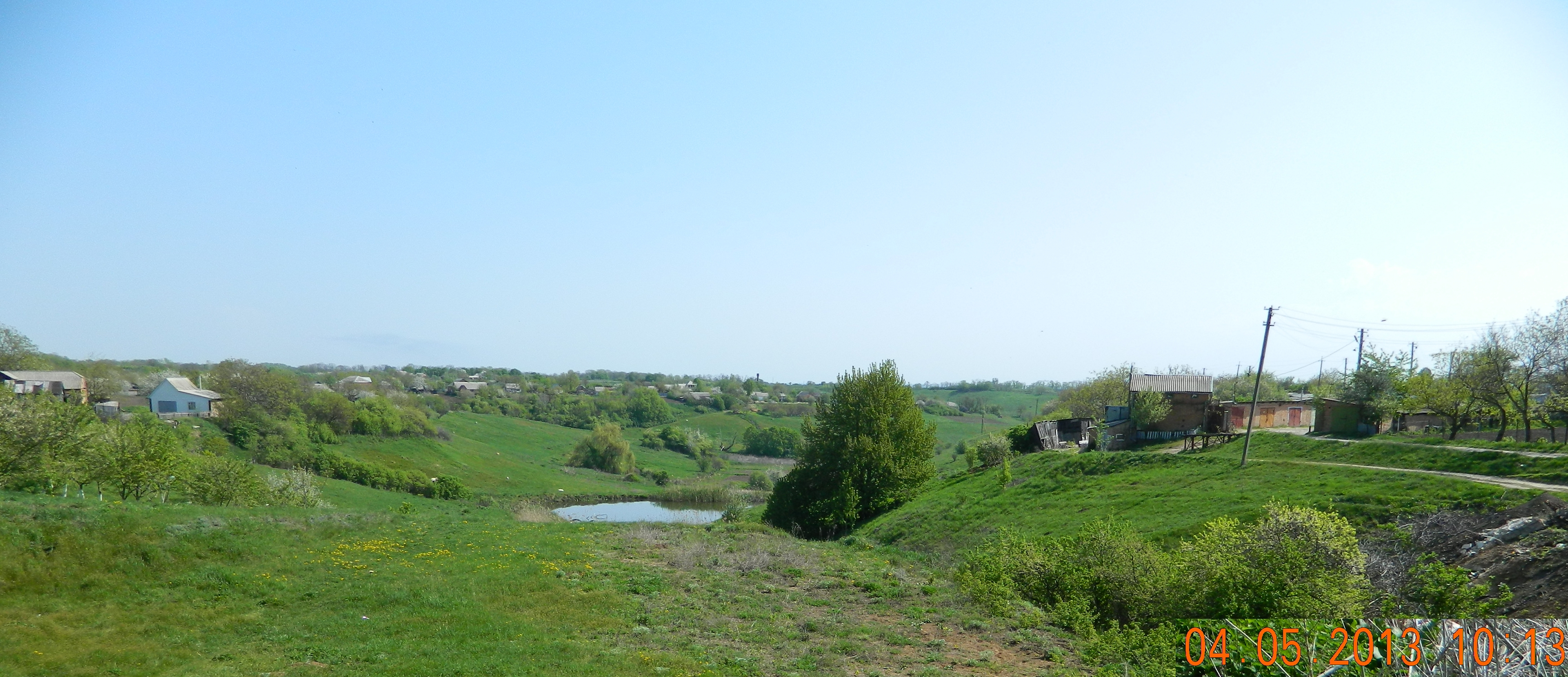 Ukraine. Poltava region. Stasi. Arroyo from the Youth street in the direction of Vorskla